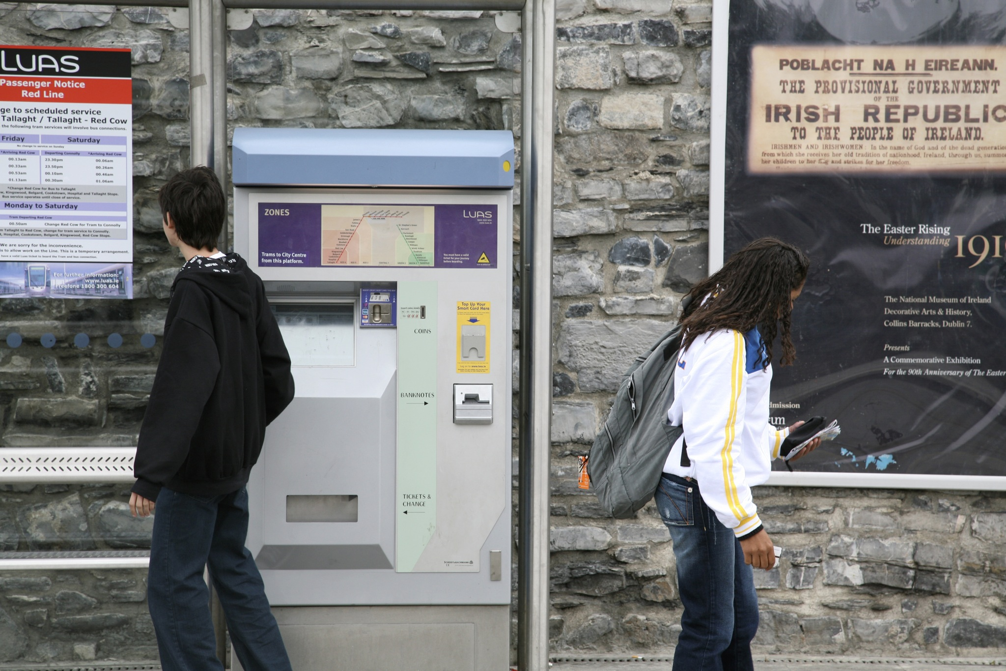 This couple could not work out how to purchase a ticket and ended up having an argument ... they are now not talking to each other.